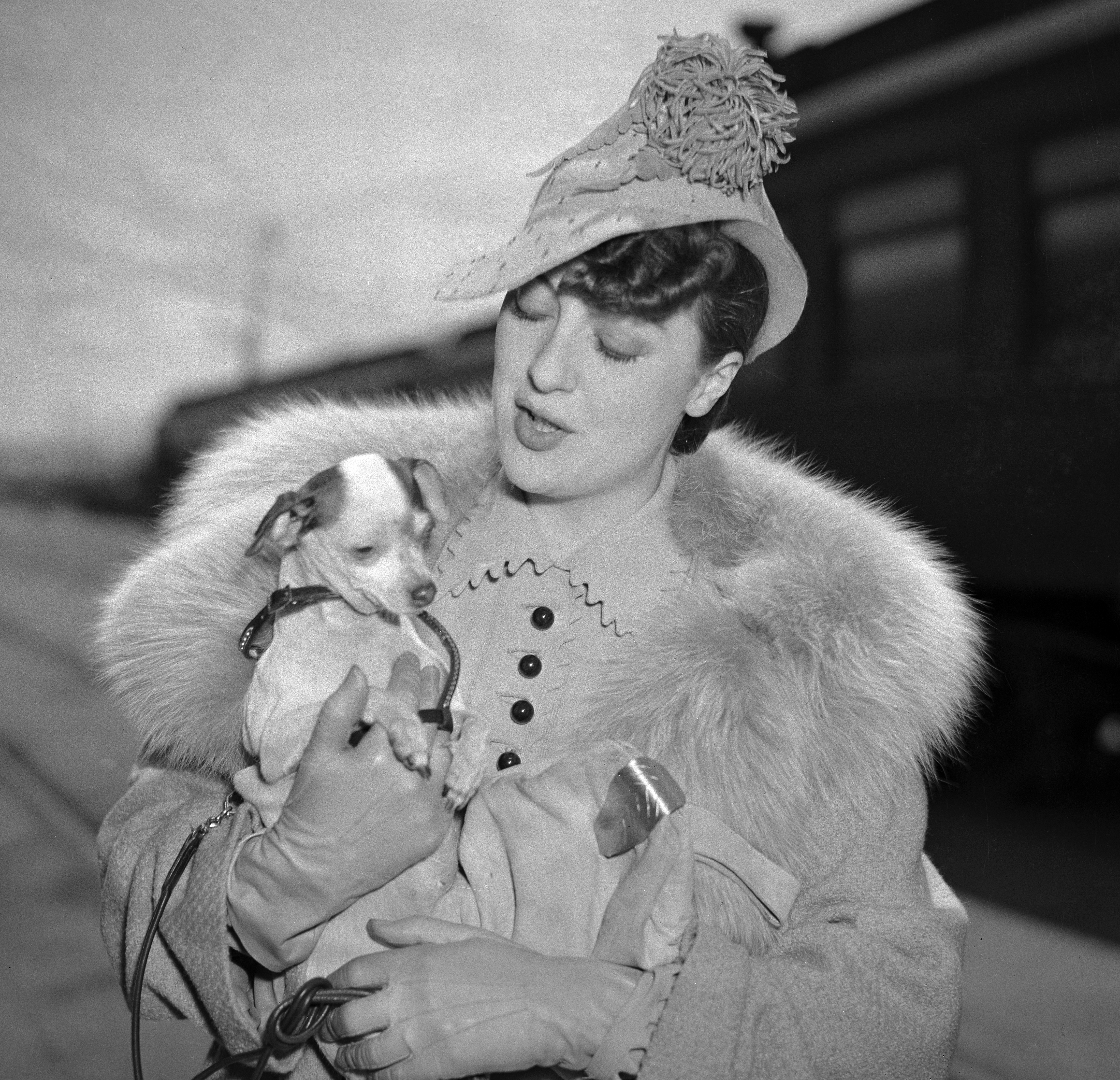 1/2 length portrait of burlesque entertainer Gypsy Rose Lee carrying dog at train station, circa 1937